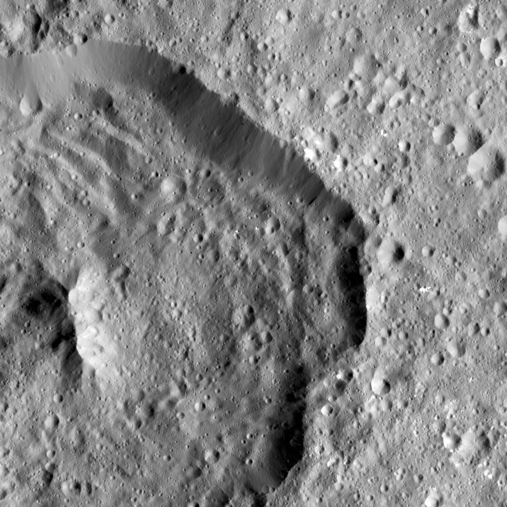 PIA20566: Dawn LAMO Image 71 Achita Crater on Ceres was named for the Nigerian god of agriculture. NASA's Dawn spacecraft took this image of the crater on January 15, 2016. Achita measures about 25 miles (40 kilometers) in diameter and is located in the northern hemisphere. Dawn spotted Achita from its low-altitude mapping orbit, at a distance of about 240 miles (385 kilometers) above the surface. The image resolution is 120 feet (35 meters) per pixel. Dawn's mission is managed by JPL for NASA's Science Mission Directorate in Washington. Dawn is a project of the directorate's Discovery Program, managed by NASA's Marshall Space Flight Center in Huntsville, Alabama. UCLA is responsible for overall Dawn mission science. Orbital ATK, Inc., in Dulles, Virginia, designed and built the spacecraft. The German Aerospace Center, the Max Planck Institute for Solar System Research, the Italian Space Agency and the Italian National Astrophysical Institute are international partners on the mission team. For a complete list of acknowledgments, For more information about the Dawn mission, visit